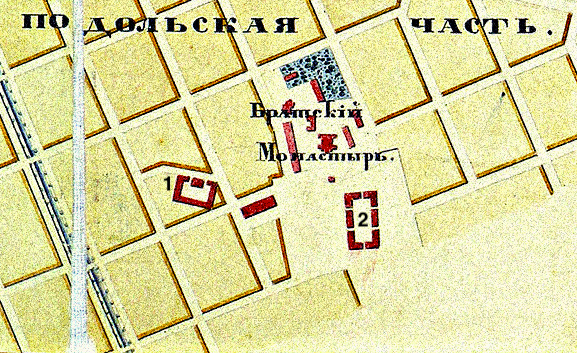 Kyiv map Podil 1852